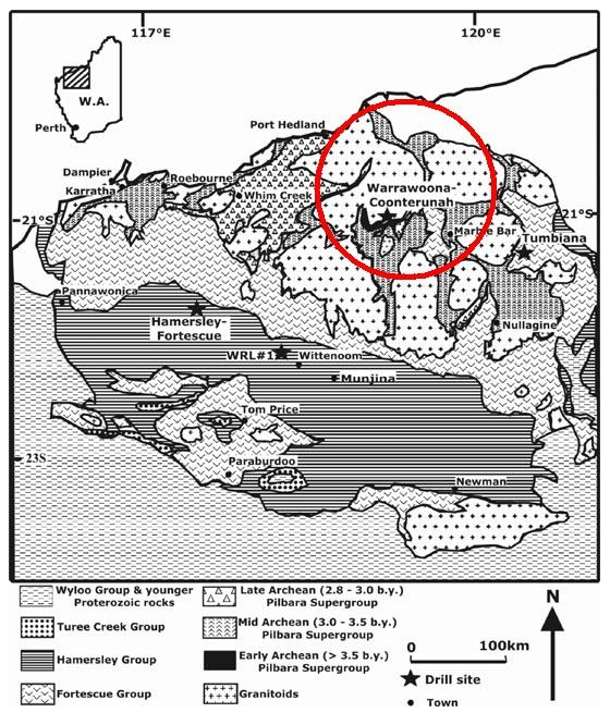 Geology of small portion of Pilbara region of Western Australia